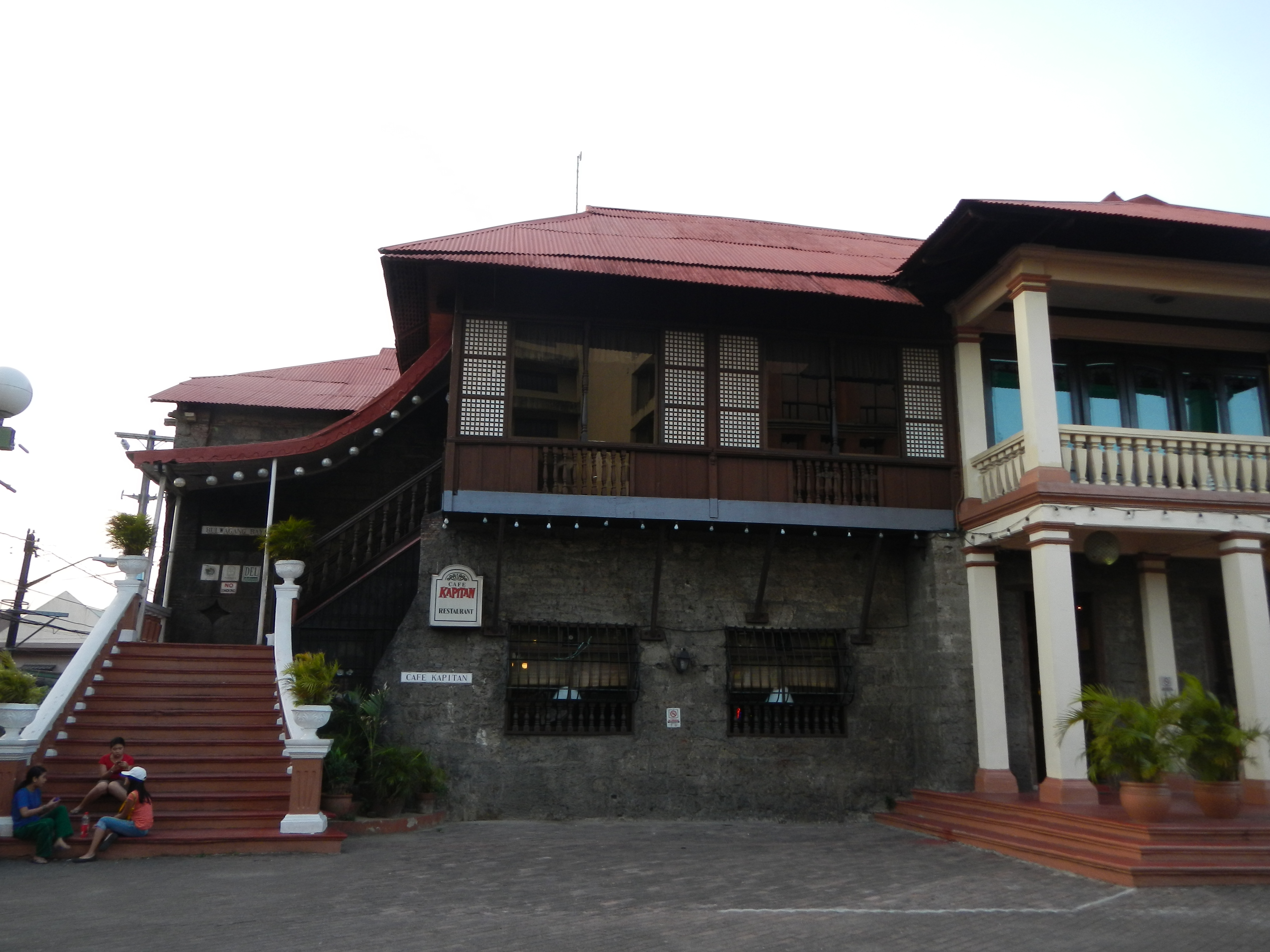 Marikina[1]The City of Marikina (Lungsod ng Marikina, in Tagalog), in the Philippines, is one of the 17 cities that make up Metro Manila, one of the most populous metropolitan areas in the world. Marikina was former capital of the province of Manila during the declaration of Philippine Independence. The city features typically many spacious parks, Museum (of shoes), monuments-museum-house and first shoe factory in Marikina of Kapitan Moy - Laureano Guevarra, monument of Wenceslao de la Paz, Kapitan Moy Restaurant-Museum.[2]